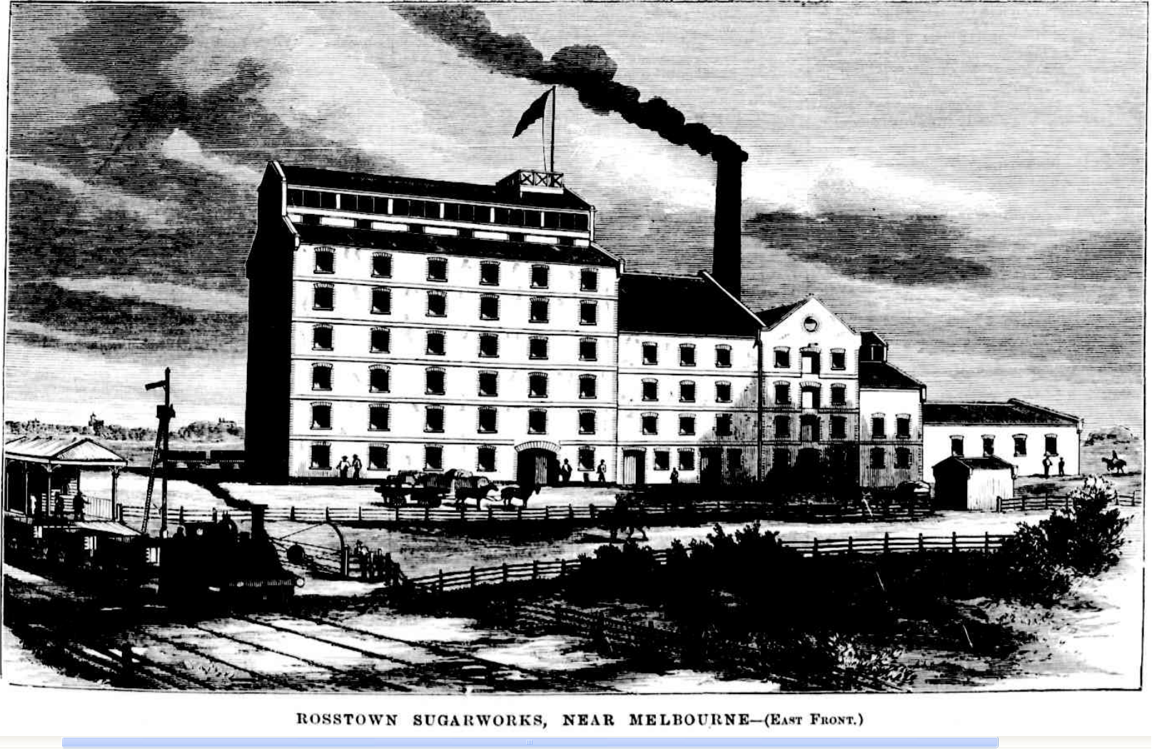 An engraving of the sugar beet refinery built as part of the "Rosstown Project" in Melbourne in the late 1800s.